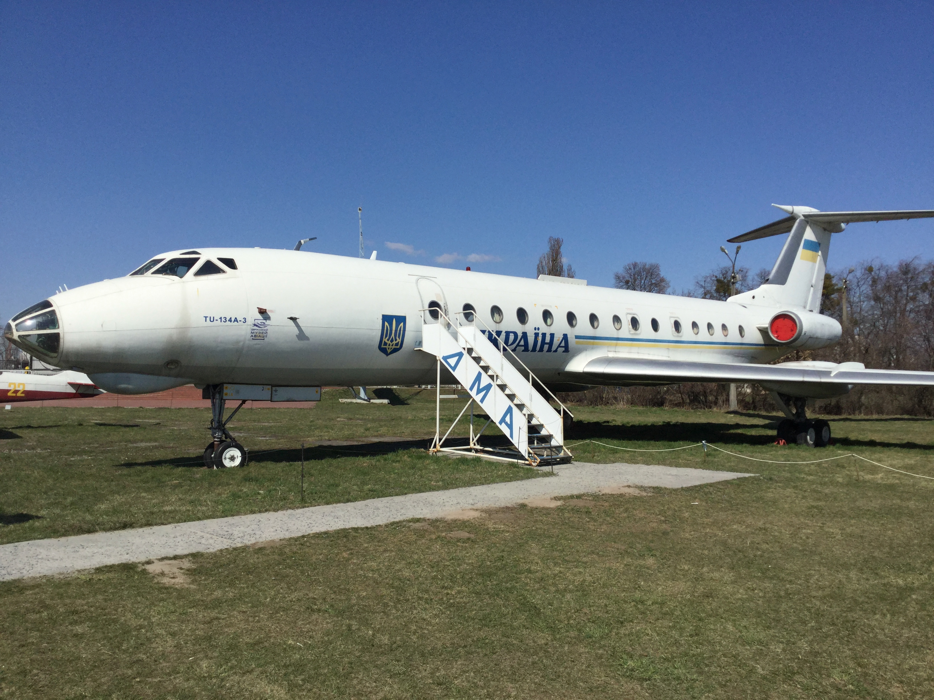 Tupolev Tu-134-A-3 of the Ukraine Air Enterprise (reg. UR-65782) on display at Ukrainian state Aviation Museum (Kyiv, Ukraine)